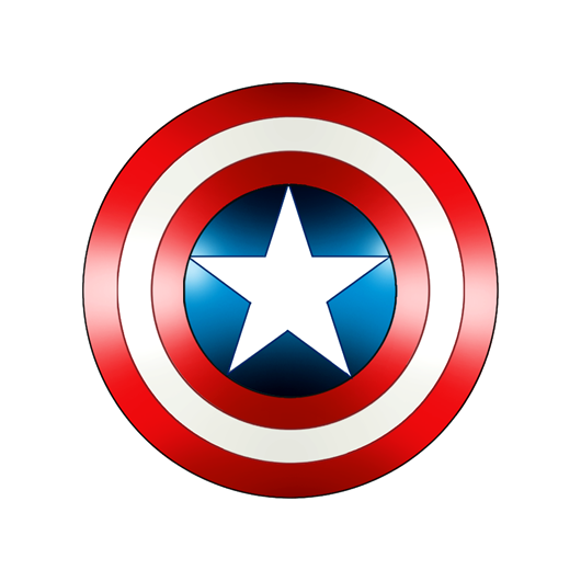 Special award for editors contributing to Marvel-related projects on Wikipedia.